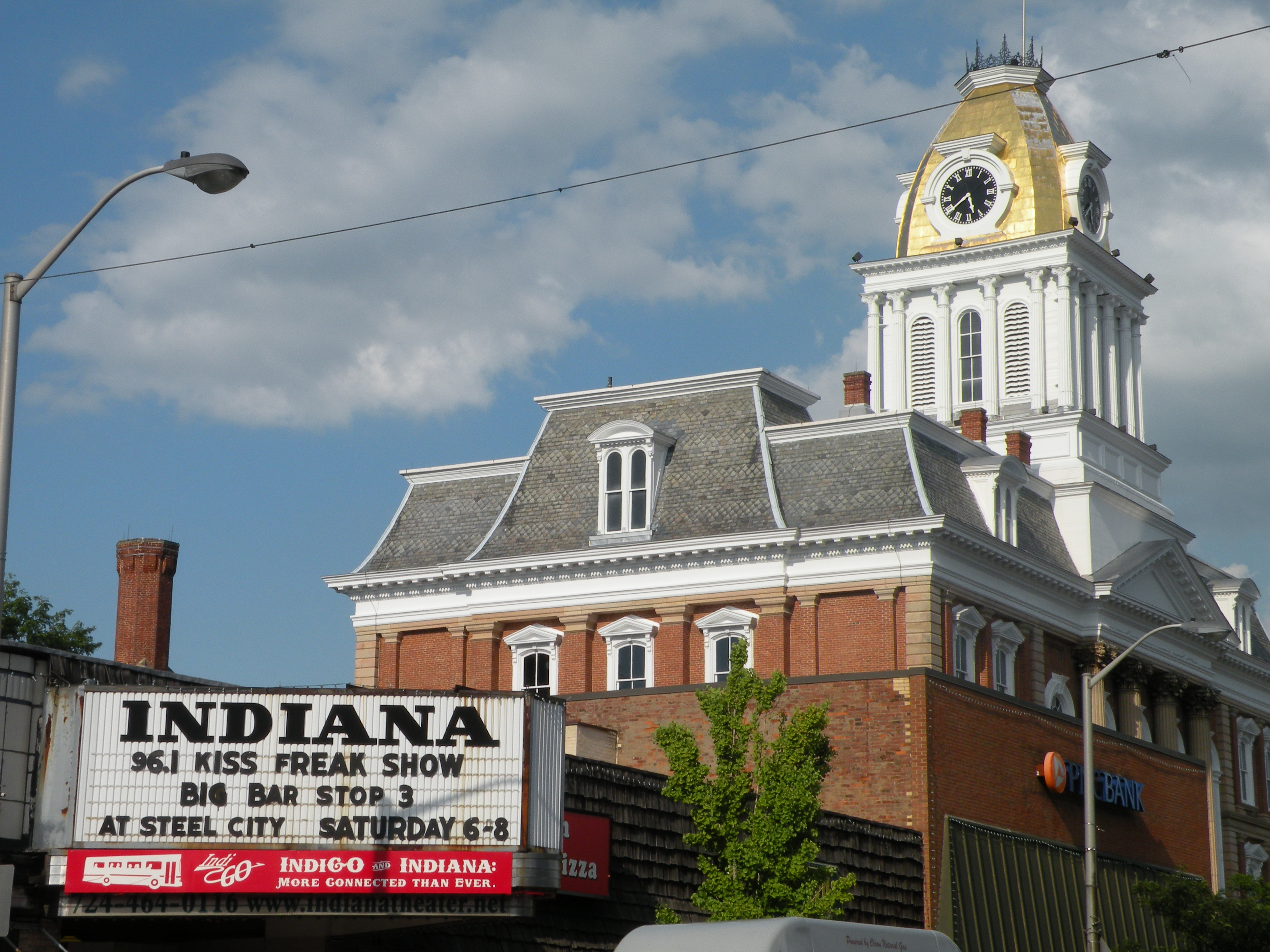 Indiana Theater marquee and the Old Indiana County Courthouse (background) — in Indiana, Pennsylvania. On the National Register of Historic Places in Indiana County, Pennsylvania.